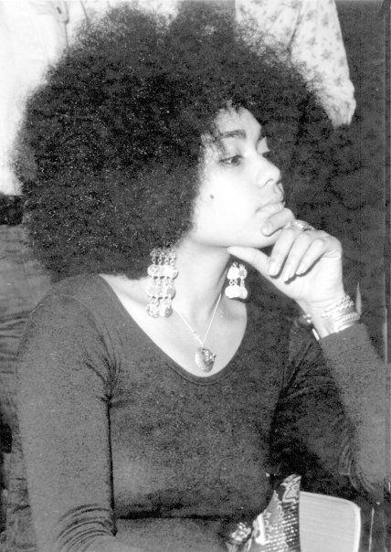 Early Years Dyana Williams